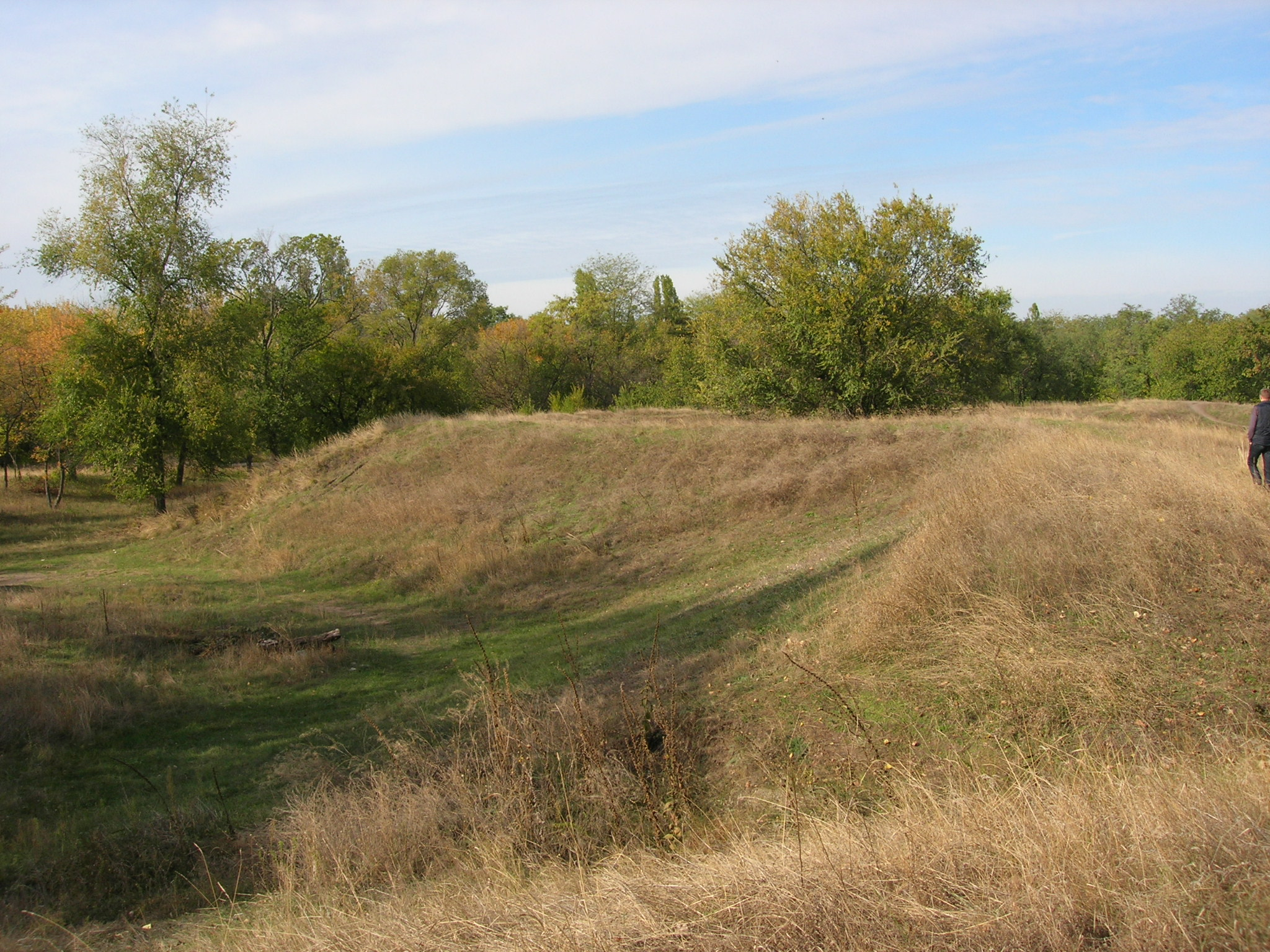 The remains of defensive walls of the fortress Novobohorodytska 17-18 centuries.